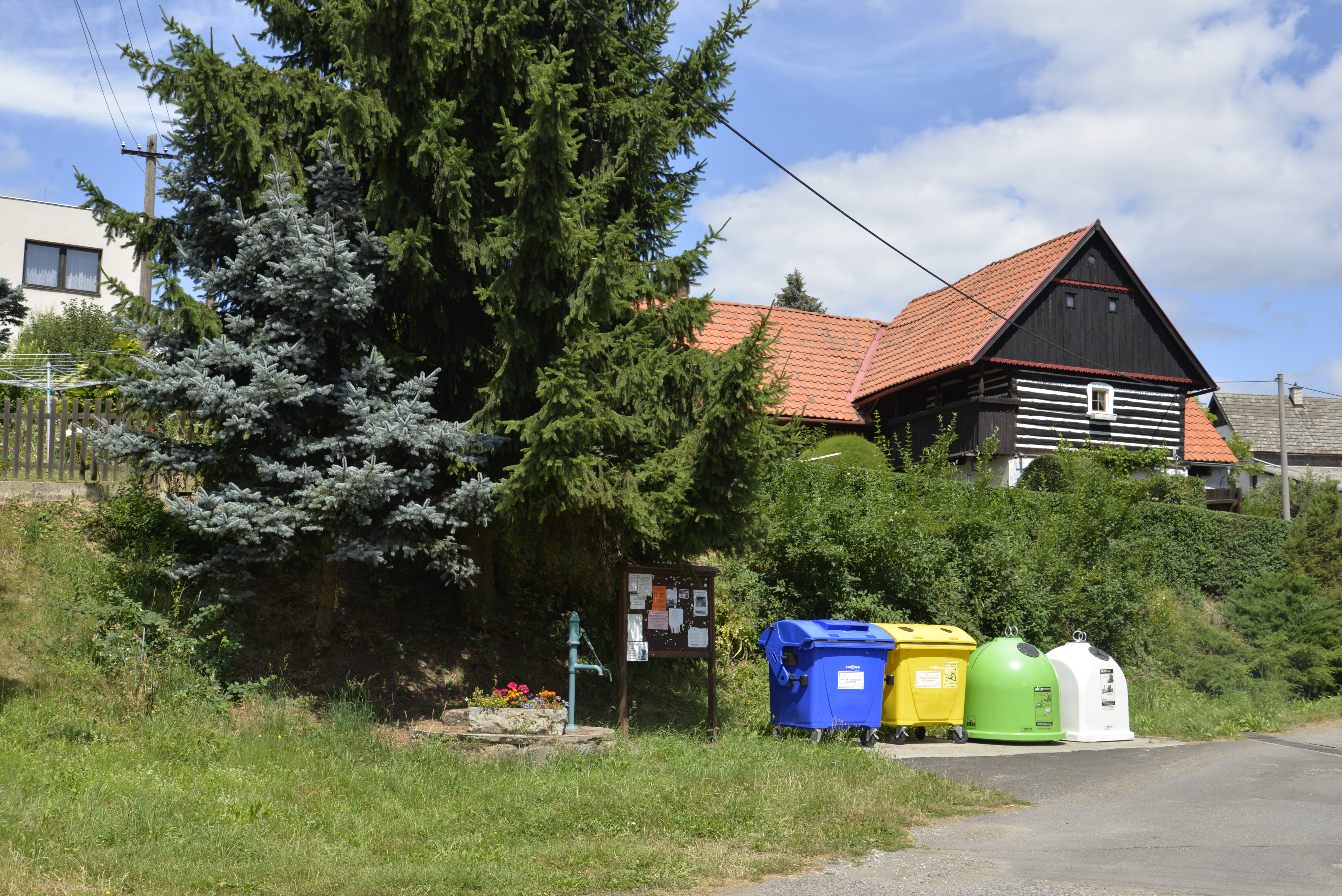 Vitanovice (Pěnčín) - village green with village pump